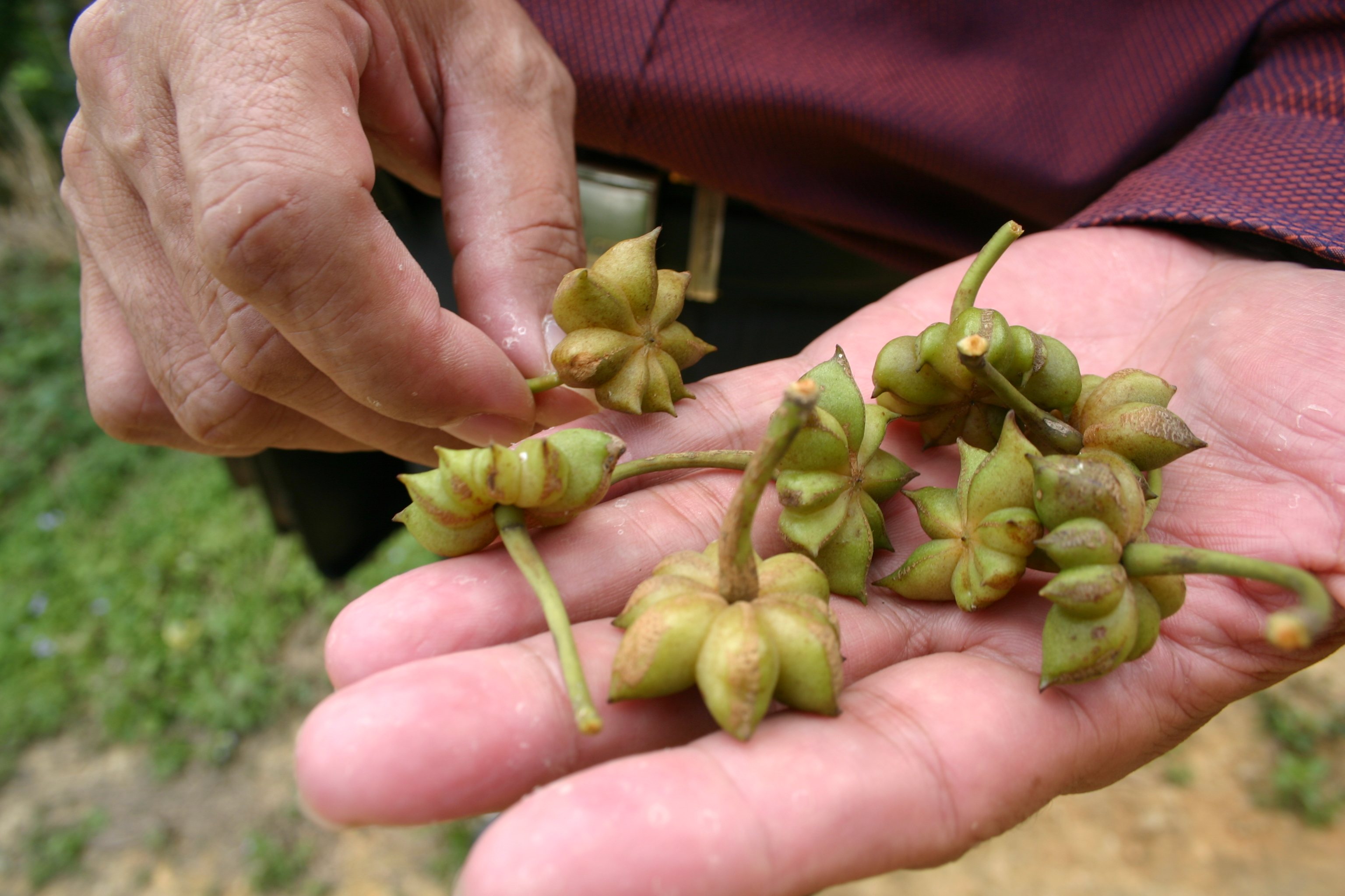 guangxi - star anise farm in china 2005